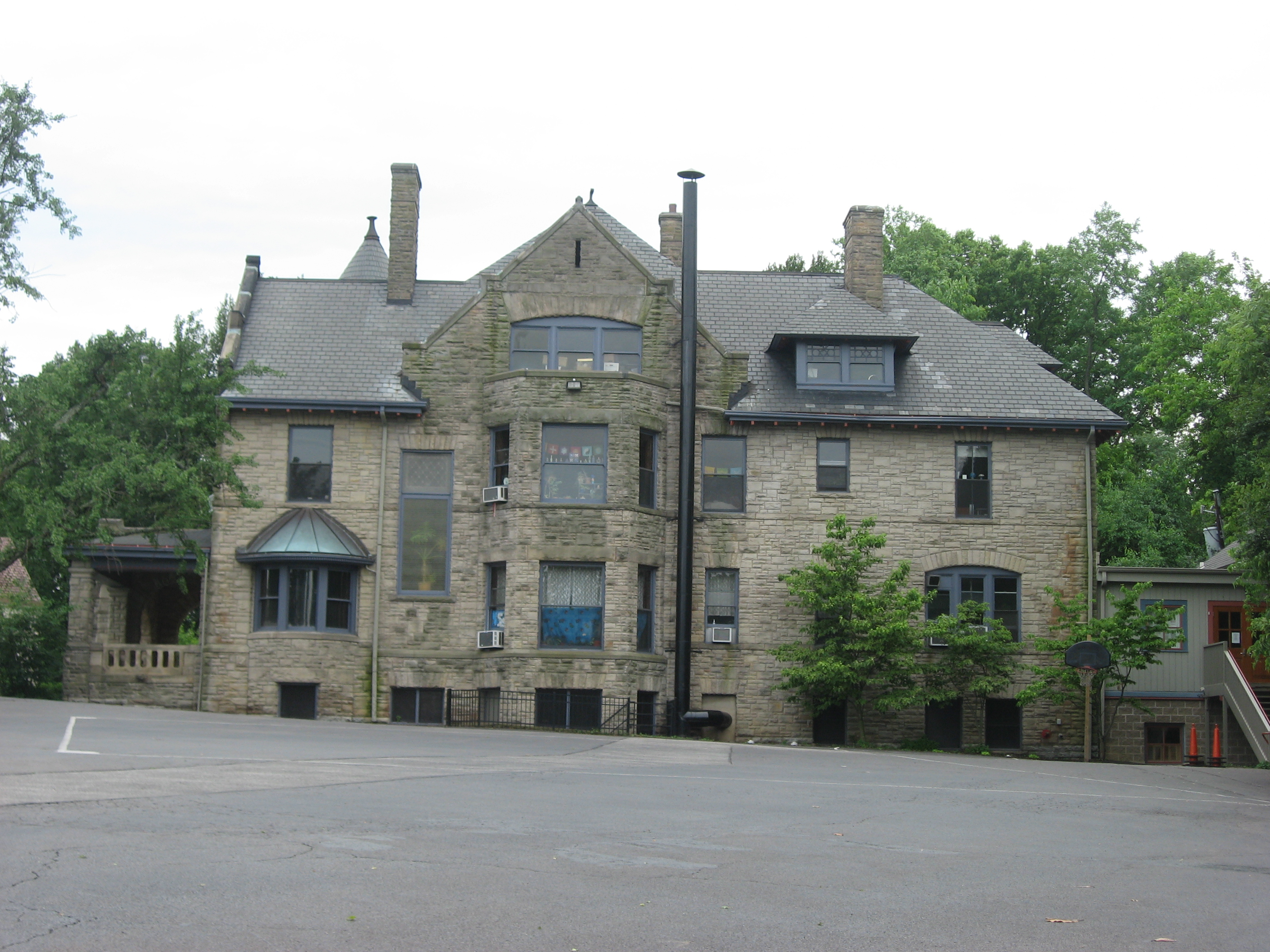 Front of the Richard H. Mitchell House (now The New School Montessori), located at 3 Burton Woods Lane in Cincinnati, Ohio, United States. Built in 1892, it is listed on the National Register of Historic Places. Owner's website